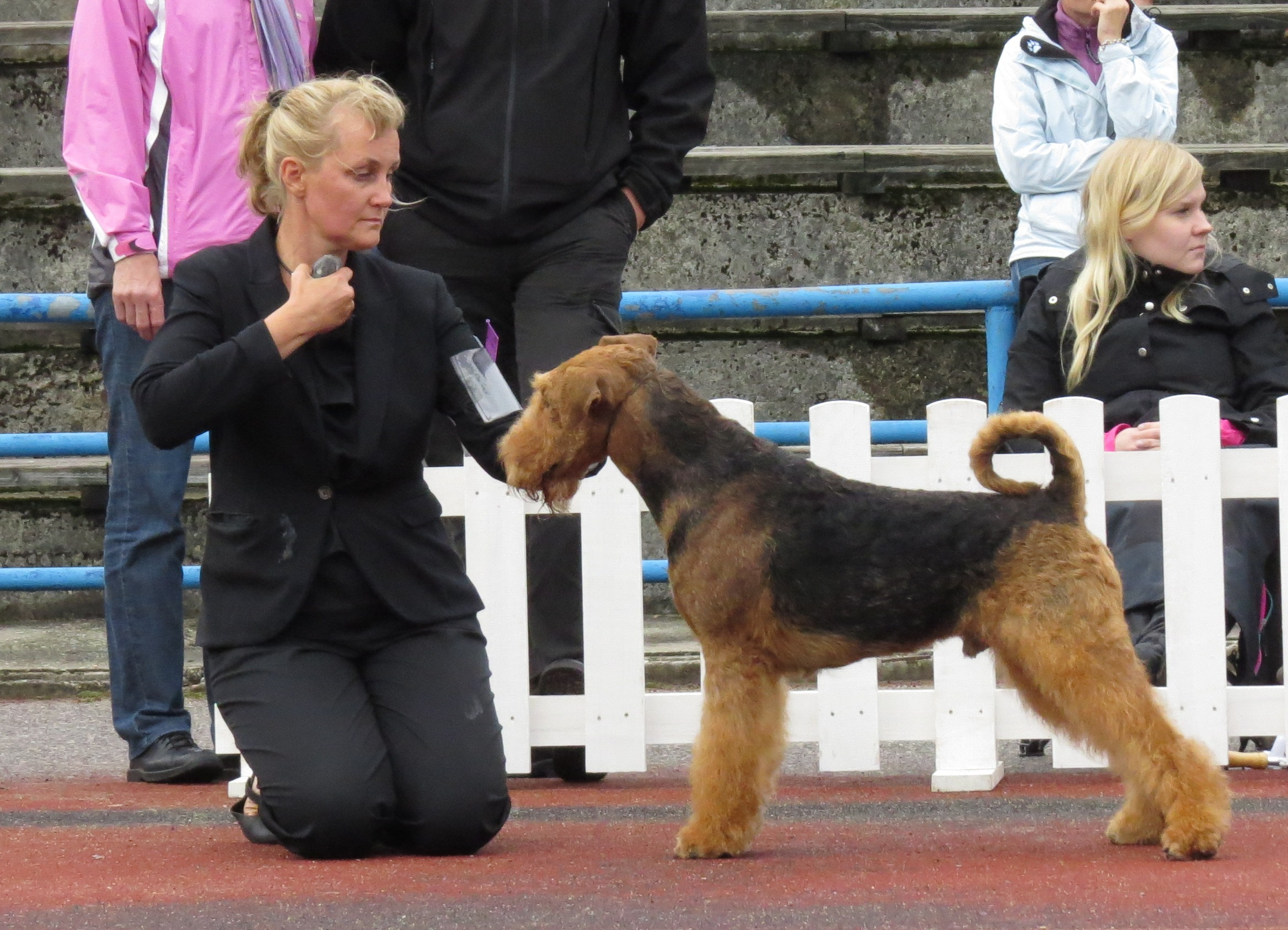 Tallinn, Estonia, duo CACIB 2013, August 17-18